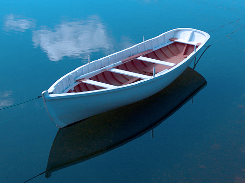 This picture of a rodney boat was taken in the summer of 2006, in Twillingate Newfoundland.